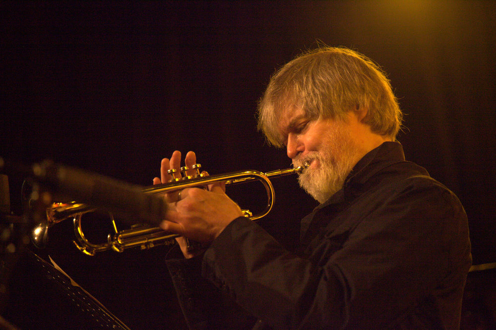 Tom Harrell in a performance in 2011